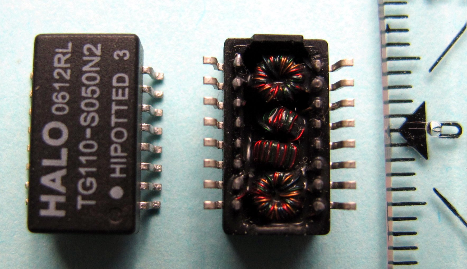 SMD-transfomers for the ethernet interface. Component top (left) and bottom (right)